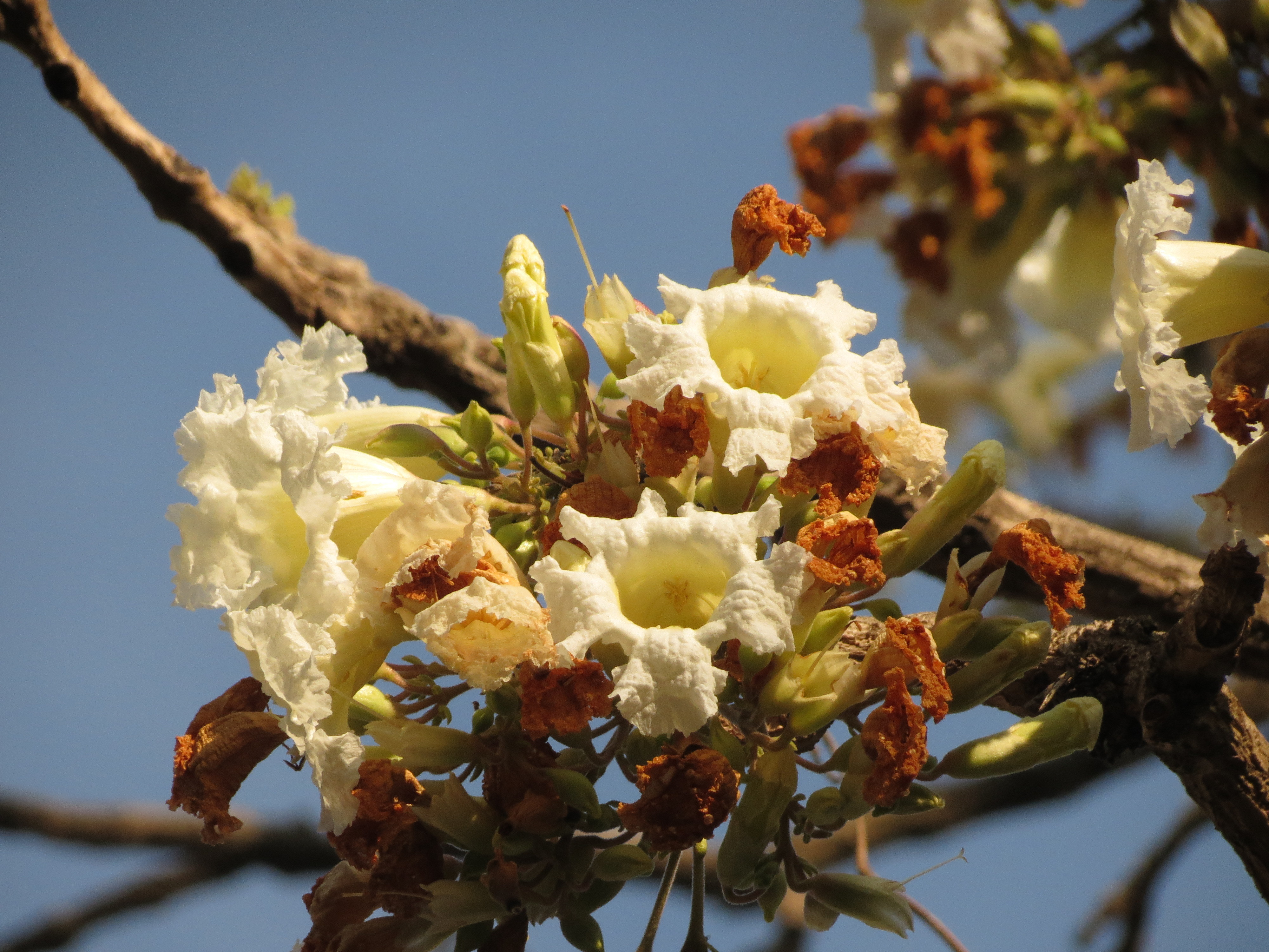 Radermachera xylocarpa seen in Ramakrishna ashram Shivanahalli, Bengaluru